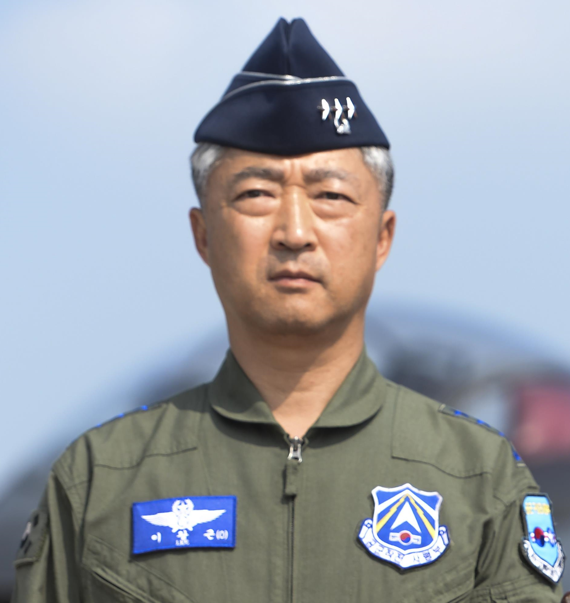 Republic of Korea air force Lt. Gen. Lee Wang-keun, Air Forces Operations Center commander